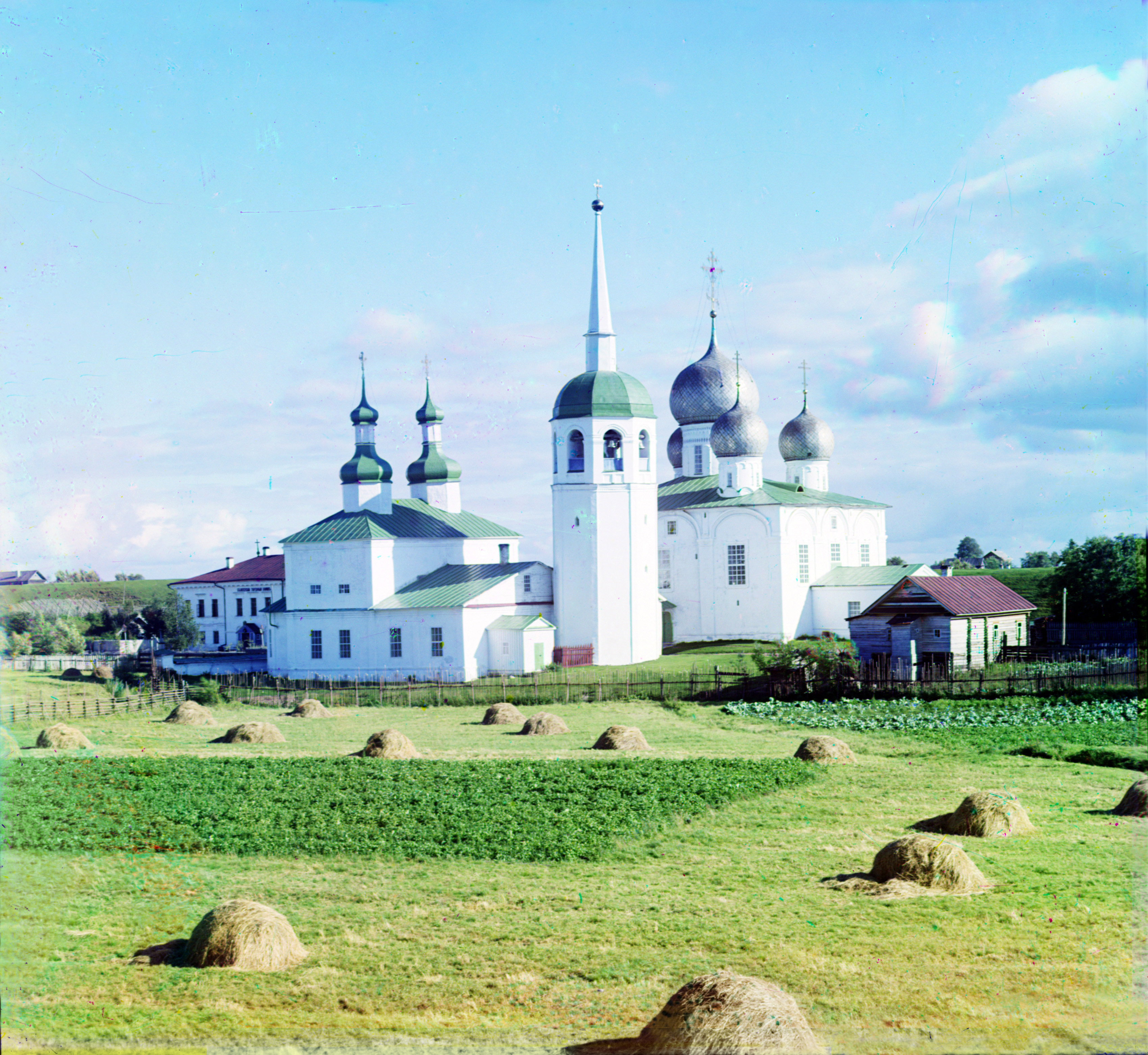 Belozersk, Mariinsky Waterway